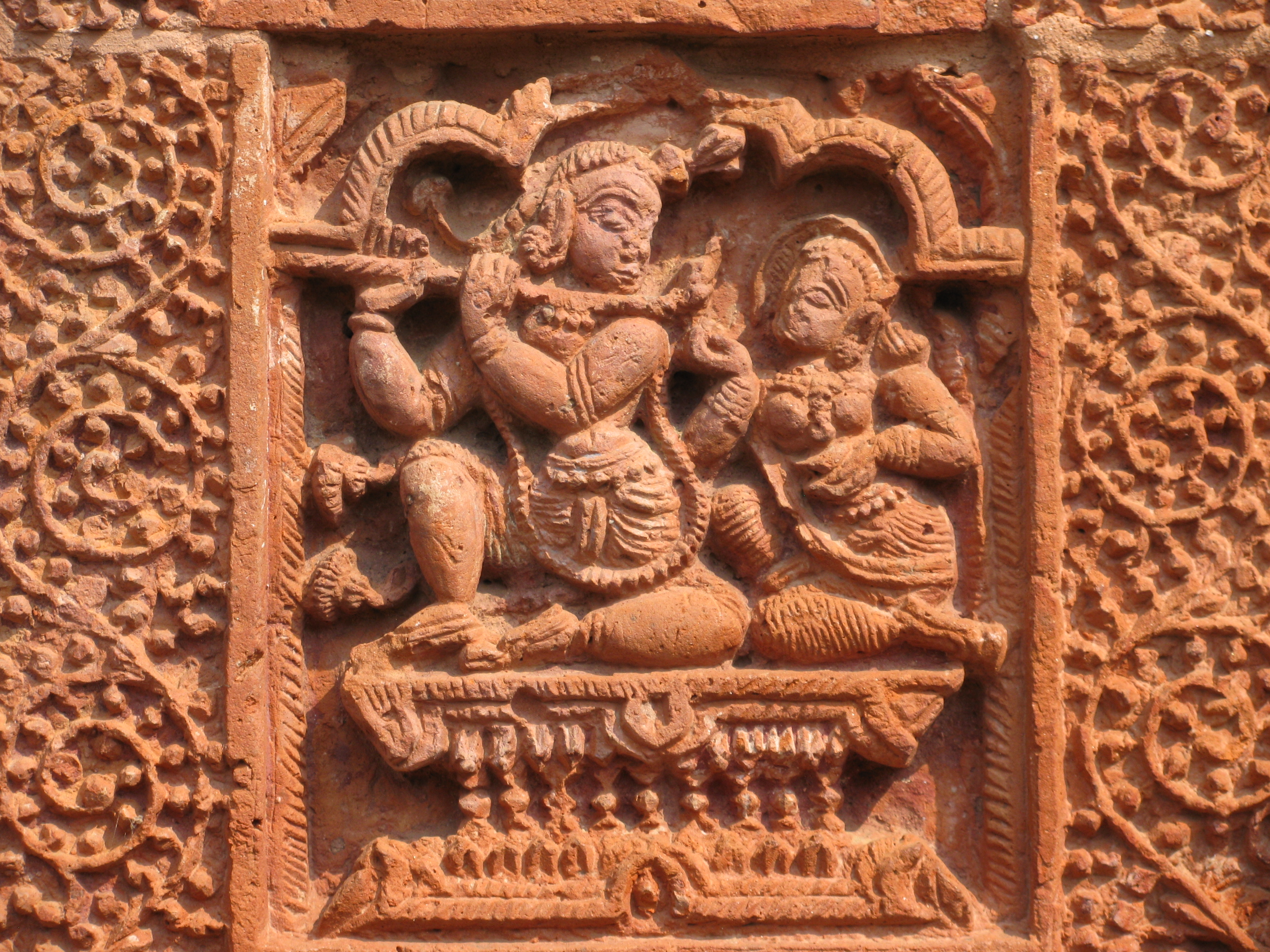 Group of temples known as Brindaban Chandra's Math